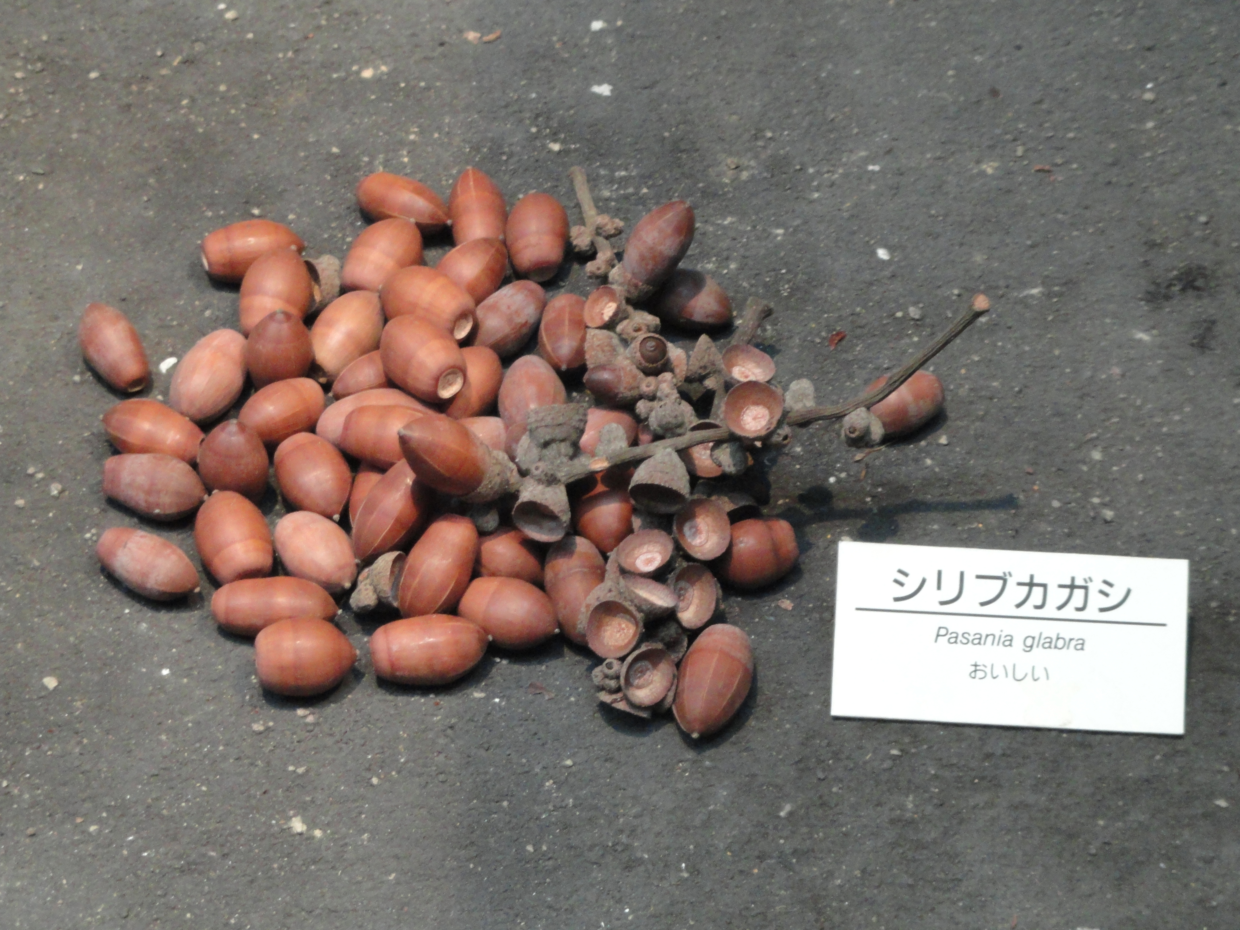 Exhibit in the Osaka Museum of Natural History, Osaka, Japan.